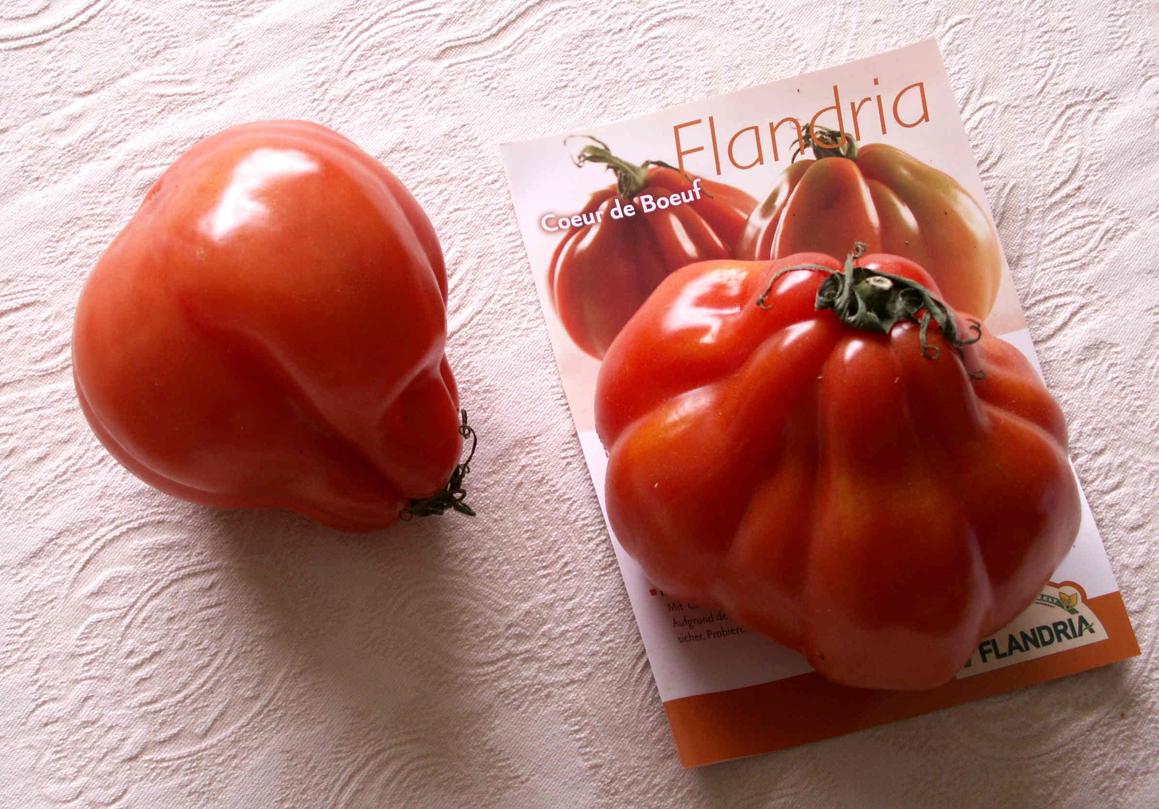 A picture of tomatoes from the "Coeur De Boeuf"-cultivar. These tomatoes are very healthy and filling and contain (as all tomatoes and vegetables in general) little calories. As such, they can be used as a healthy snack for when you are quite hungry (and when regular tomatoes would not satisfy your hunger that easily).